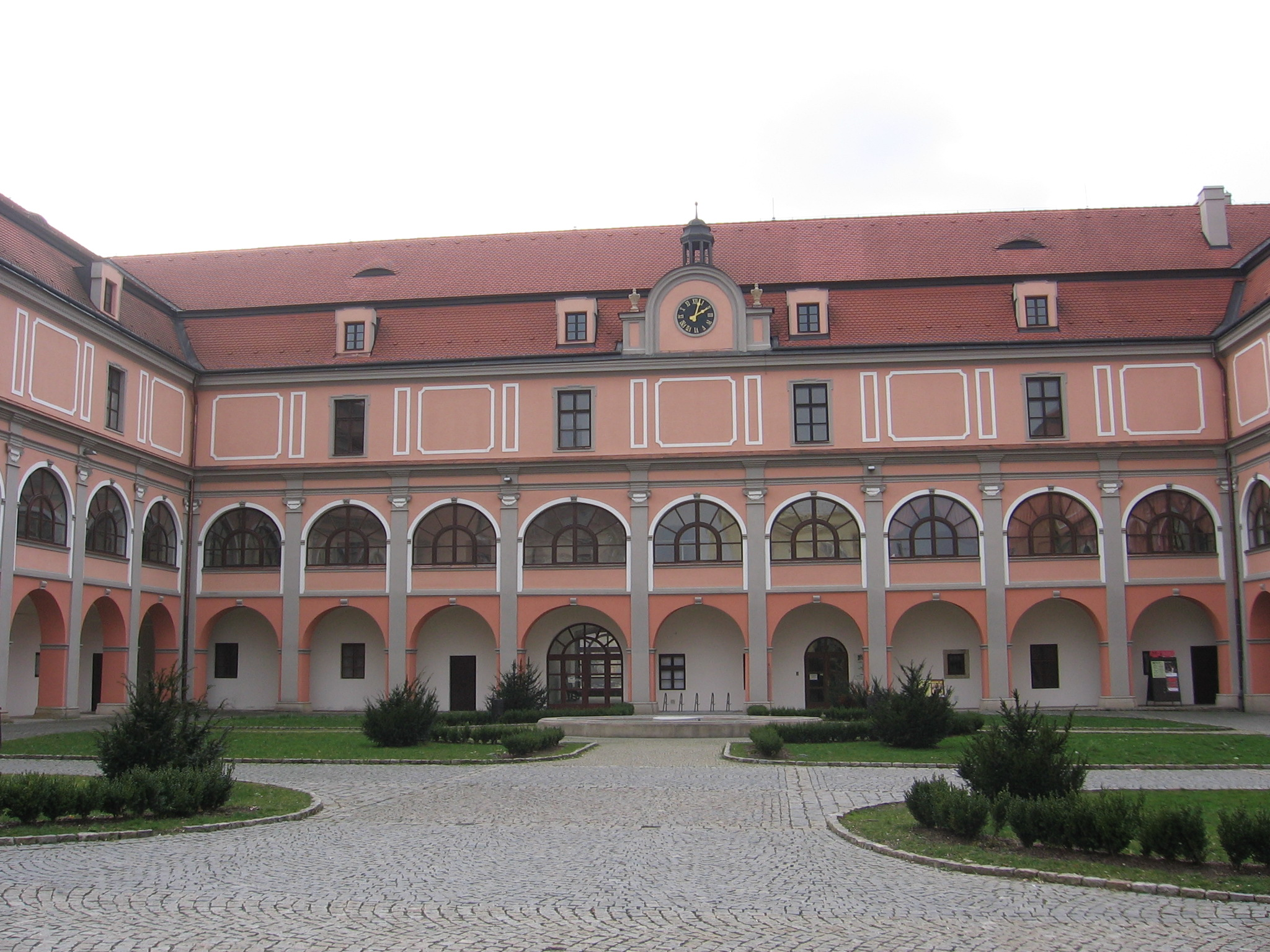 Castle of Žerotínové in Valašské Meziříčí, the Czech Republic